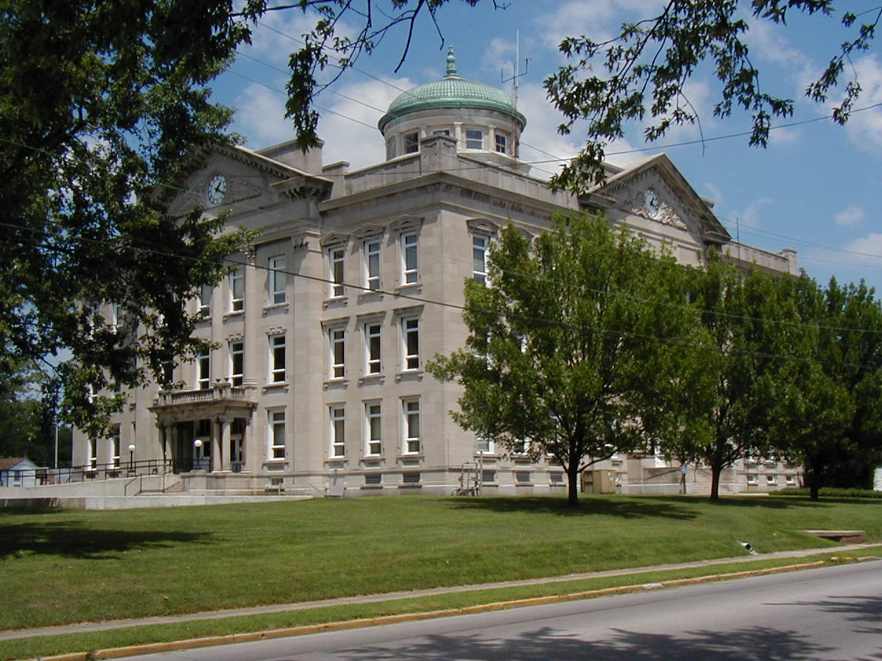 Front of the Clay County Courthouse, located along U.S. Route 40 in downtown Brazil, Indiana, United States. Built in 1914, it is listed on the National Register of Historic Places.